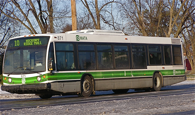 MATA bus in Memphis, December 2004.